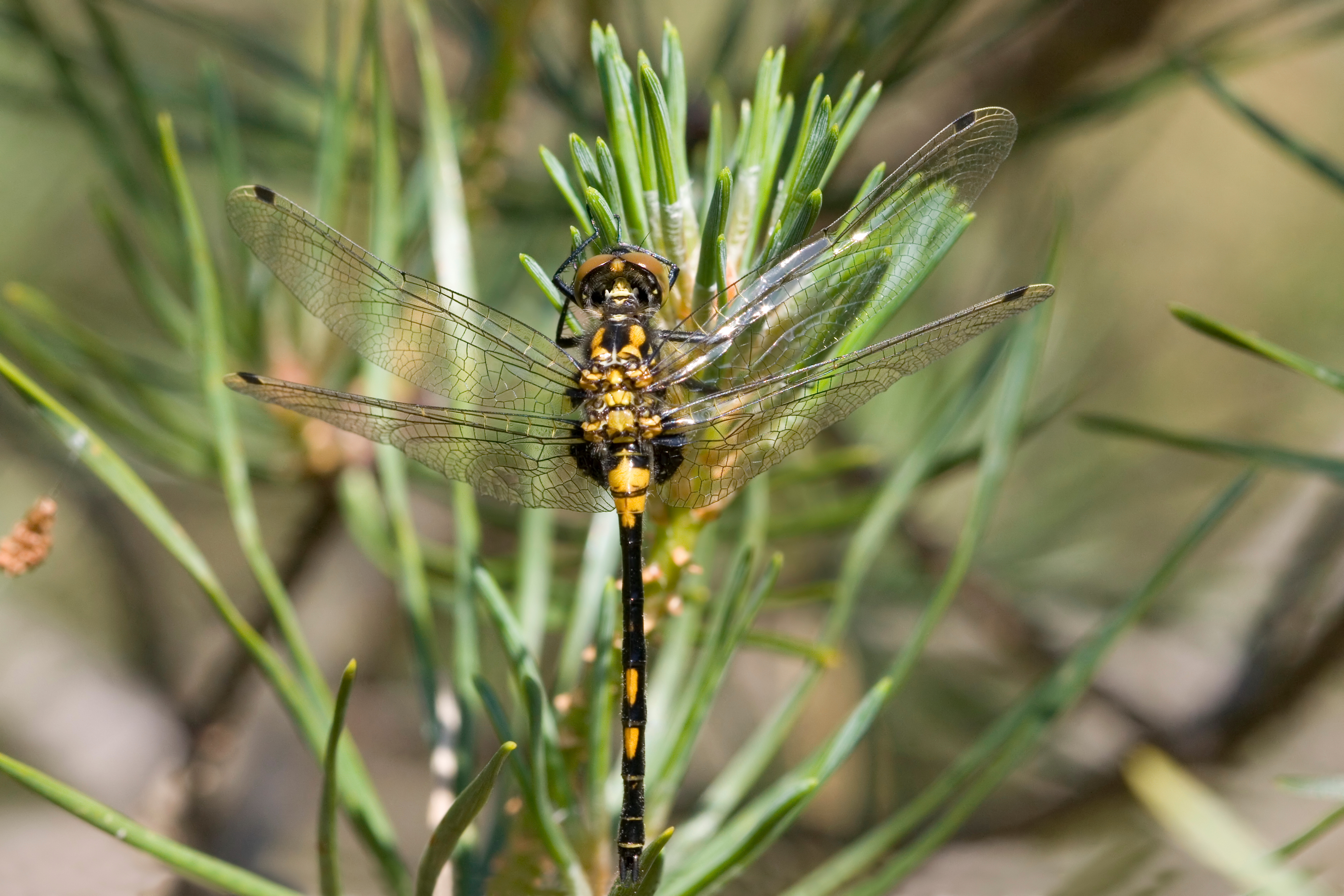 Teneral male of the White-faced Darter (Leucorrhinia dubia) in the Ahlenmoor, a peatland in northern Lower Saxony, Germany.The specimen has been identified als a male due to the form of the long upper appendices and the marking of the abdomen, female animals are many more heavyset. Probably it hatched just a few days ago and it will take still another week until all now yellow appearing ranges are red colored.